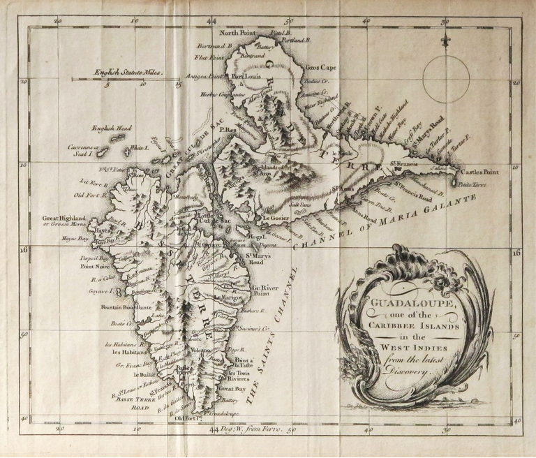 A map of Guadeloupe while fighting took place there leading to its occupation by the English. First published in "The Universal Magazine of Knowledge and Pleasure", John Hinton (ed.), London, March 1759.